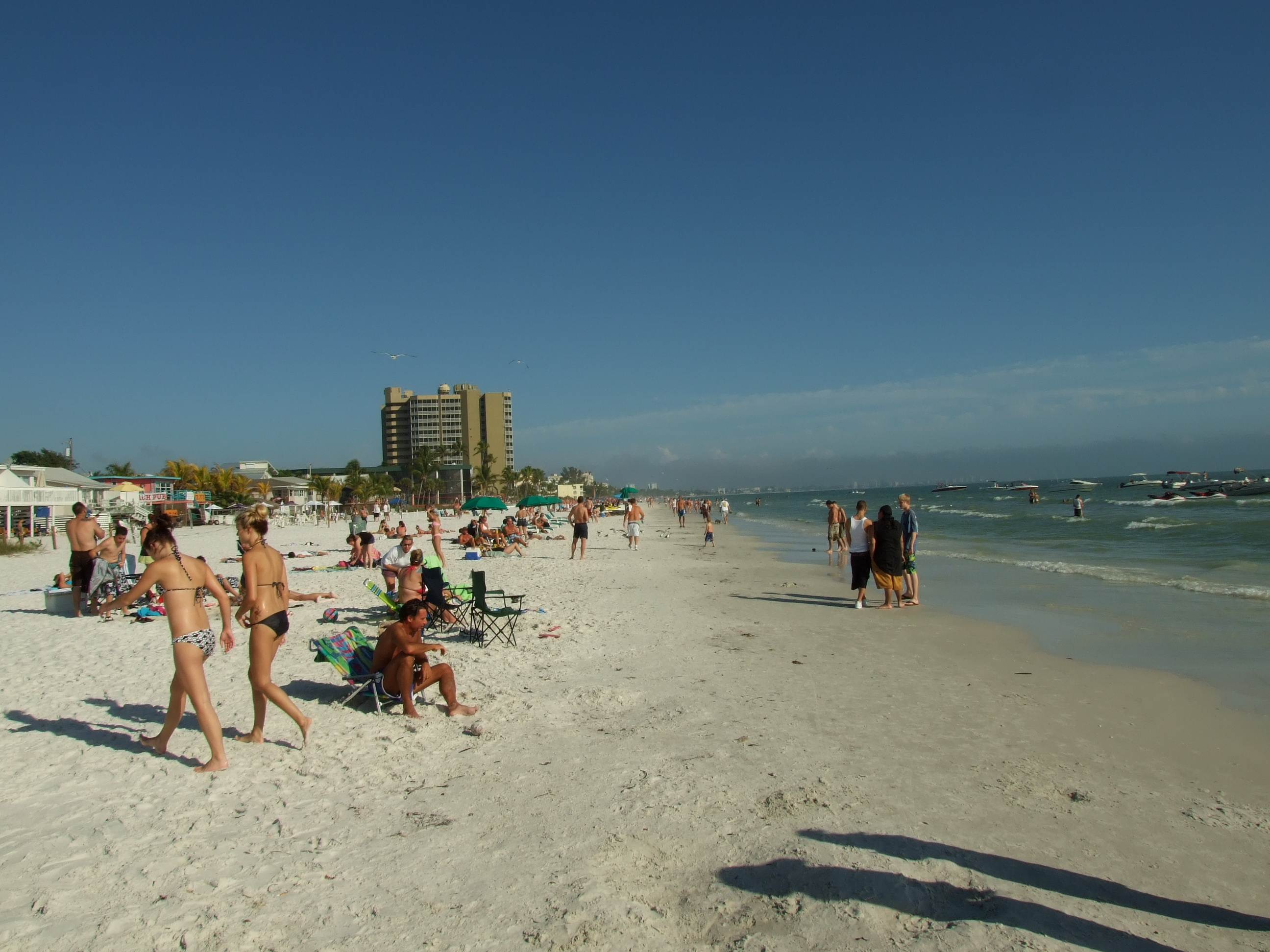 Beach in Fort Myers Beach, Florida